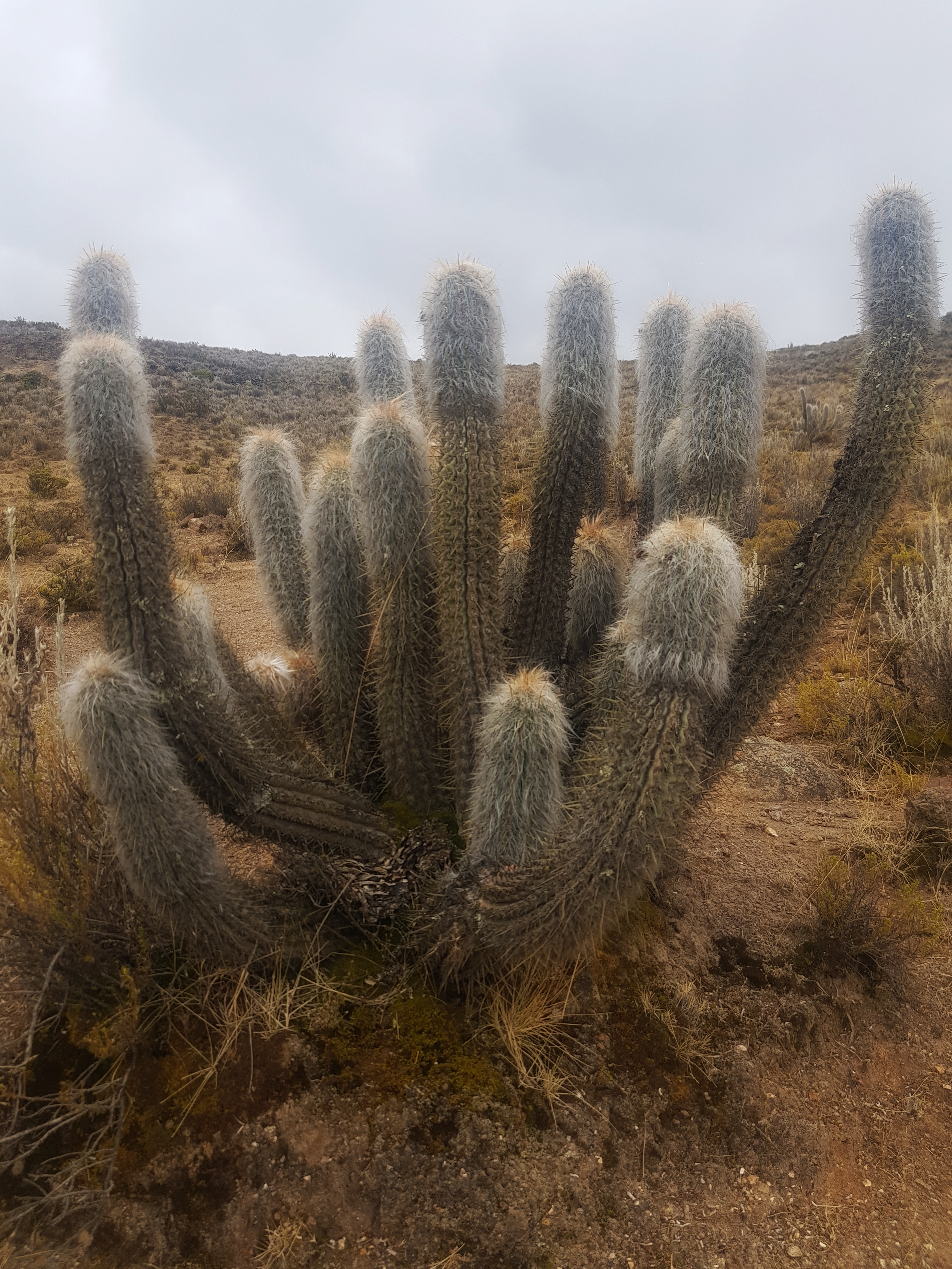 Cephalocereus senilis on the slopes on the way to Candarave